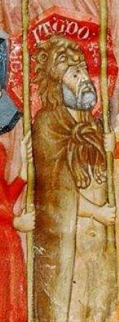 Bible of Neapol